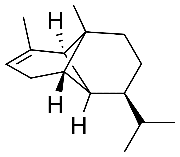 Skeletal structure of (–)-α-copaene.